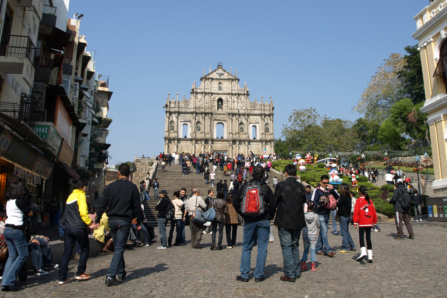 Cathedral of Saint Paul in Macau(Distant view)